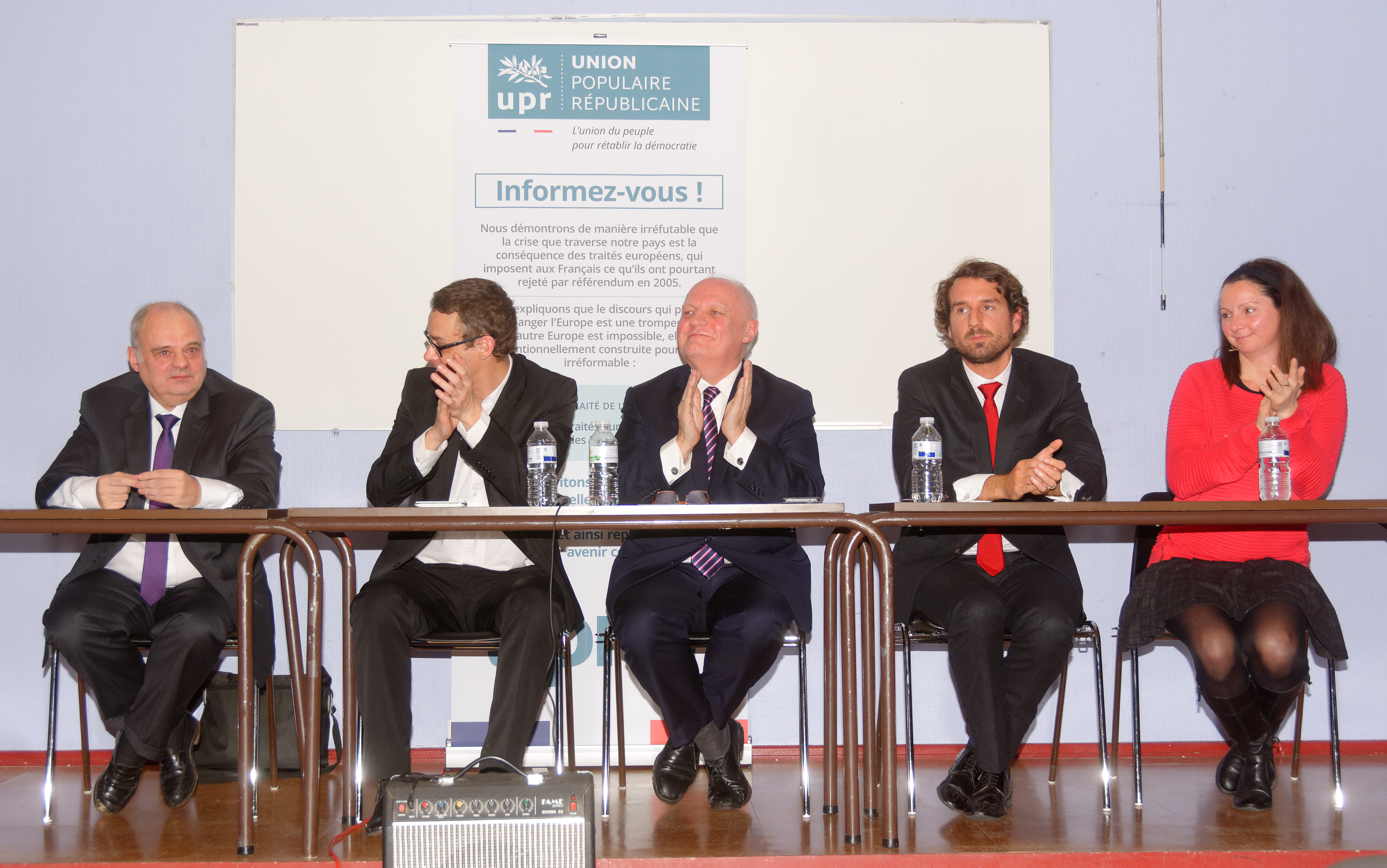 Personality rights warningAlthough this work is freely licensed or in the public domain, the person(s) shown may have rights that legally restrict certain re-uses unless those depicted consent to such uses. In these cases, a model release or other evidence of consent could protect you from infringement claims.